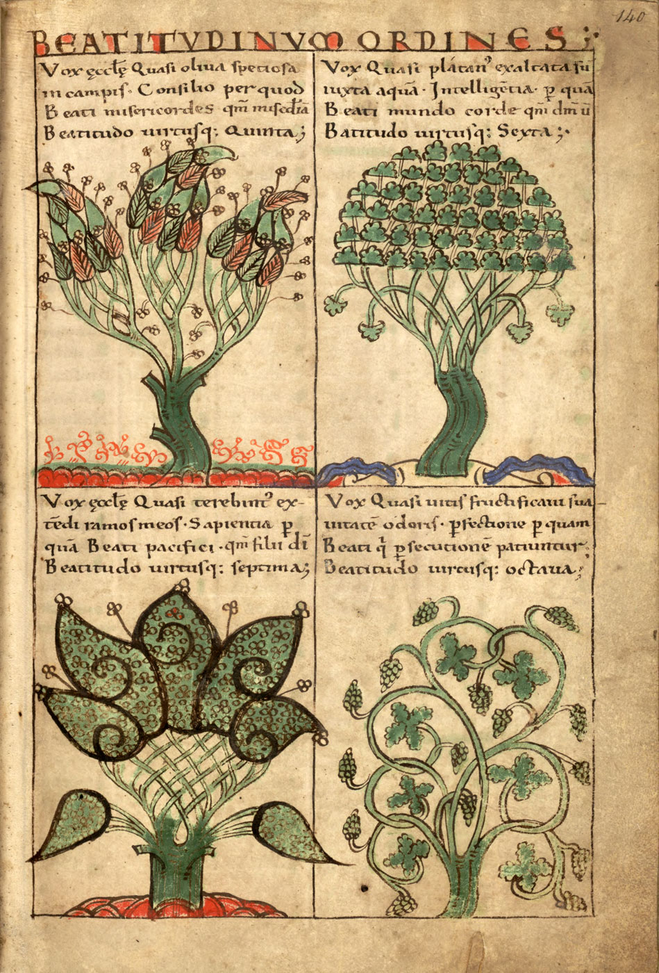 Trees symbolizing the Eight Betitudes. Liber Floridus, Ghent, fol. 140